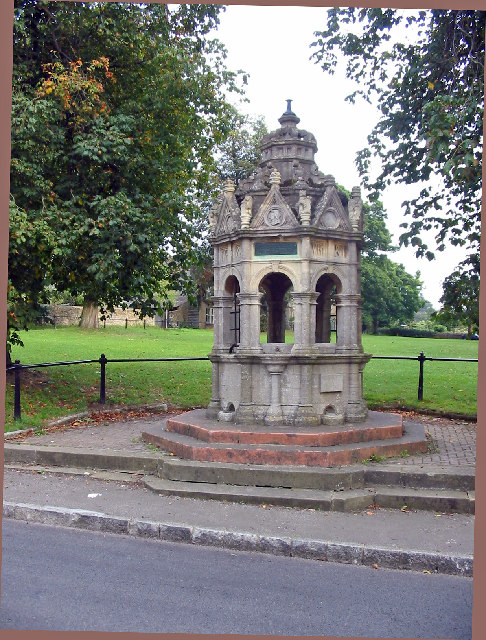 Diamond Jubilee drinking fountain, Playing Close, Charlbury, Oxfordshire: built to commemorate the visit of Queen Victoria in 1886 and provision of piped water in 1896